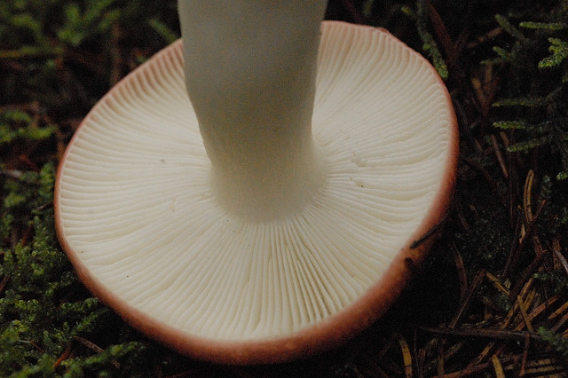 Russula emetica from Commanster, Belgium. The determination of the species shown in this picture has been verified.